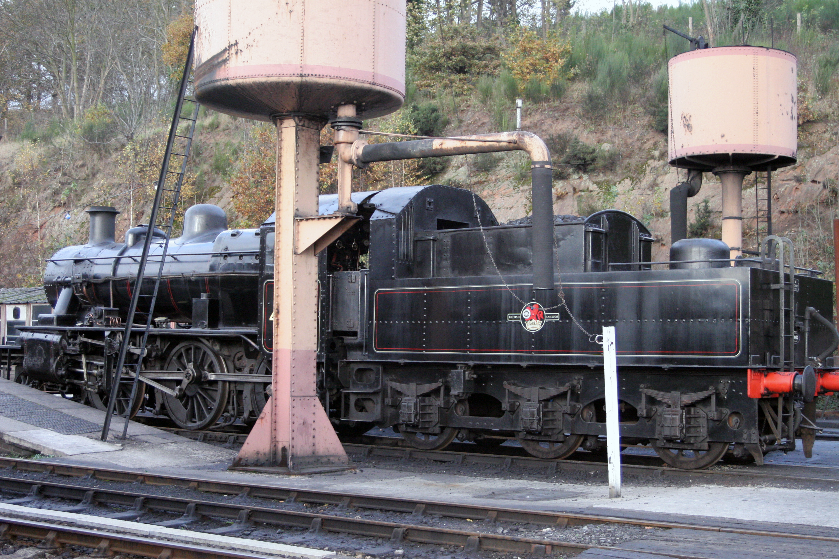 46443 Ivatt class at Bewdley railway station, 10th November 2007. Photo by Simon Emms.